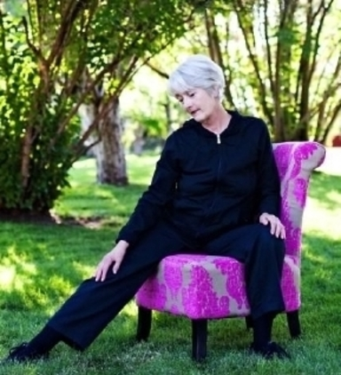 Seated Tai Chi